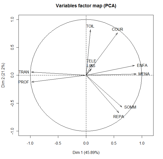 A PCA plot drawn with R explaining the variable contribution to the two principal components